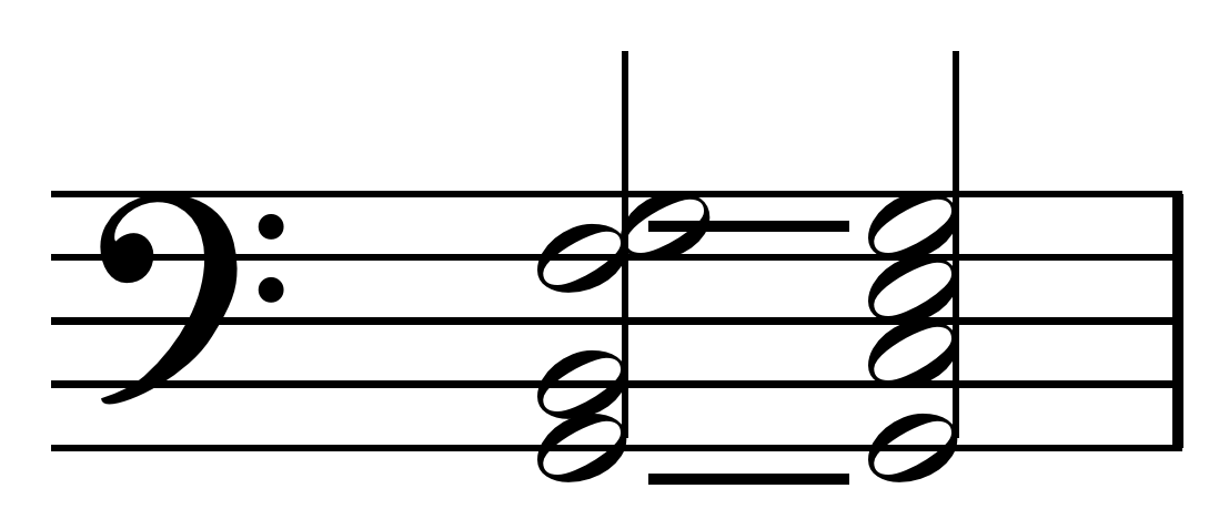 Dominant seventh with root doubled and missing fifth resolving to I, in C.